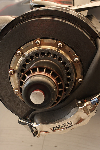 McLaren F1 Brake disc that heats up to 1000 celsius during the race.